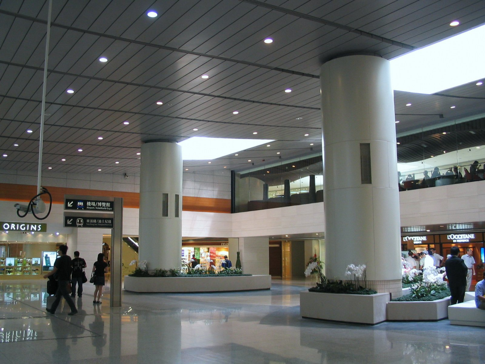 圓方-木區 WOOD Zone of Elements, Union Square